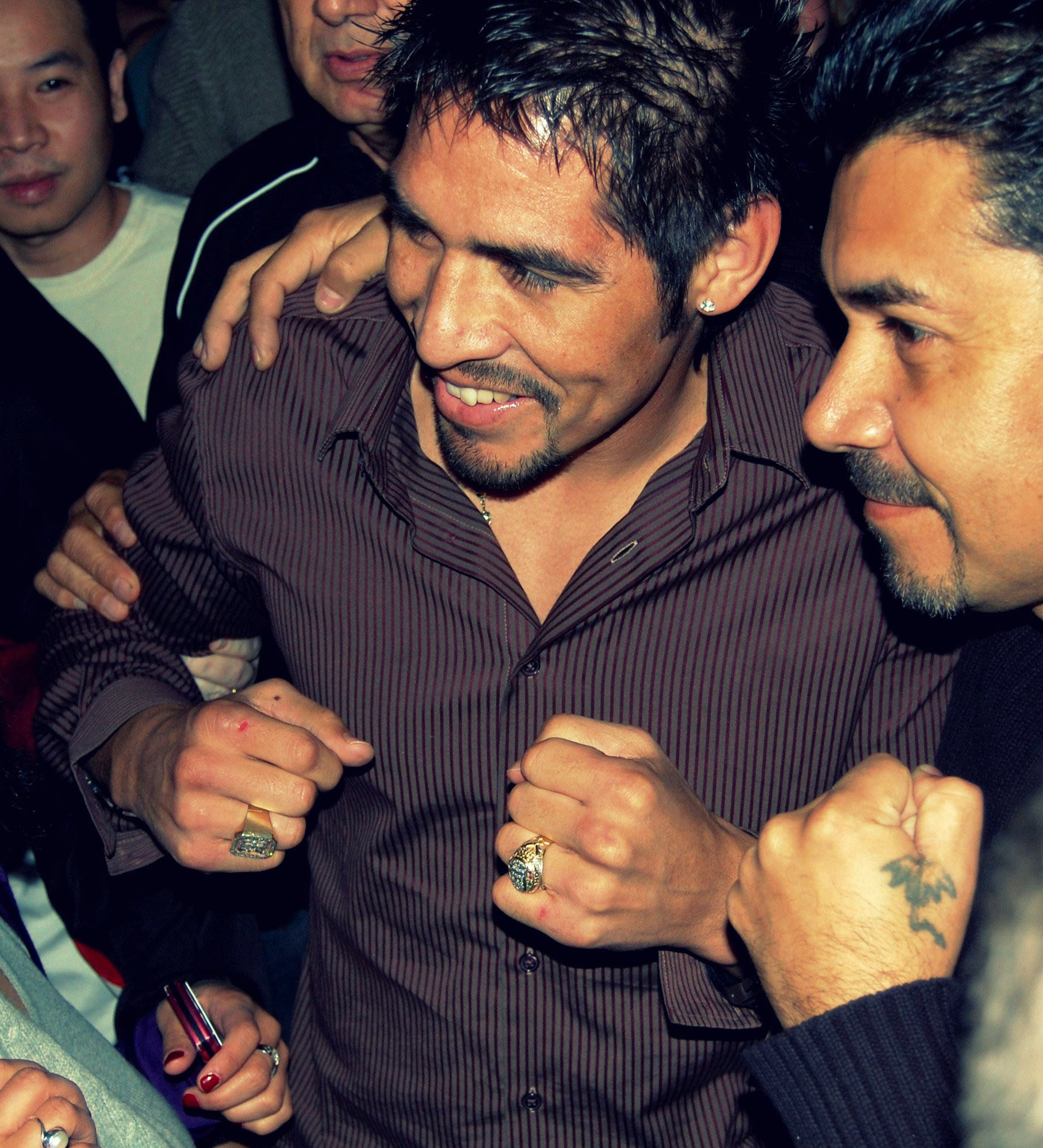 The REAL DEAL Antonio Margarito, here with his trainer, showing great sportsmanship posing for pics for a huge crowd....I wish DelaHoya would have been man enough to take a beating from this guy....well at least he took a beating and is retiring a quitter, loser, bastard... LOL